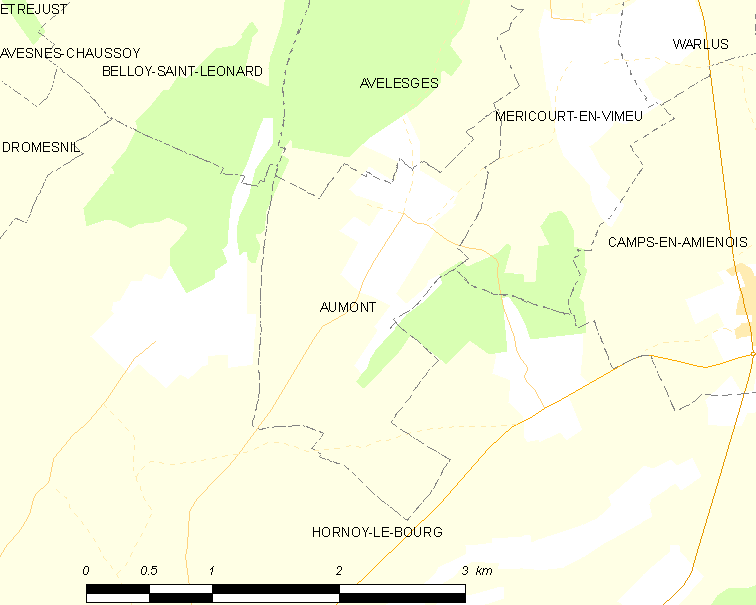 Map of French municipality Aumont